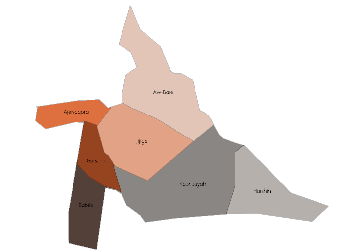 Faafan Zone, previously Jigjiga zone of the Somali region of Ethiopia.